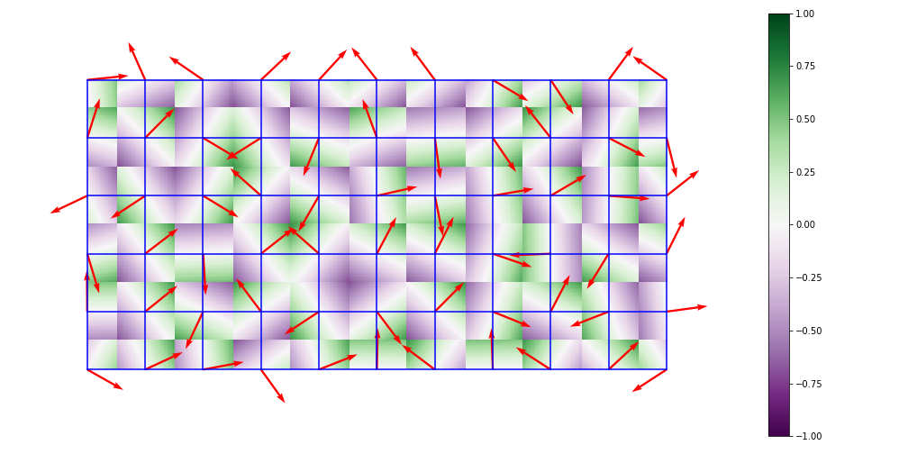 Dot product of the gradient with the distance to the nearest node for generating Perlin noise